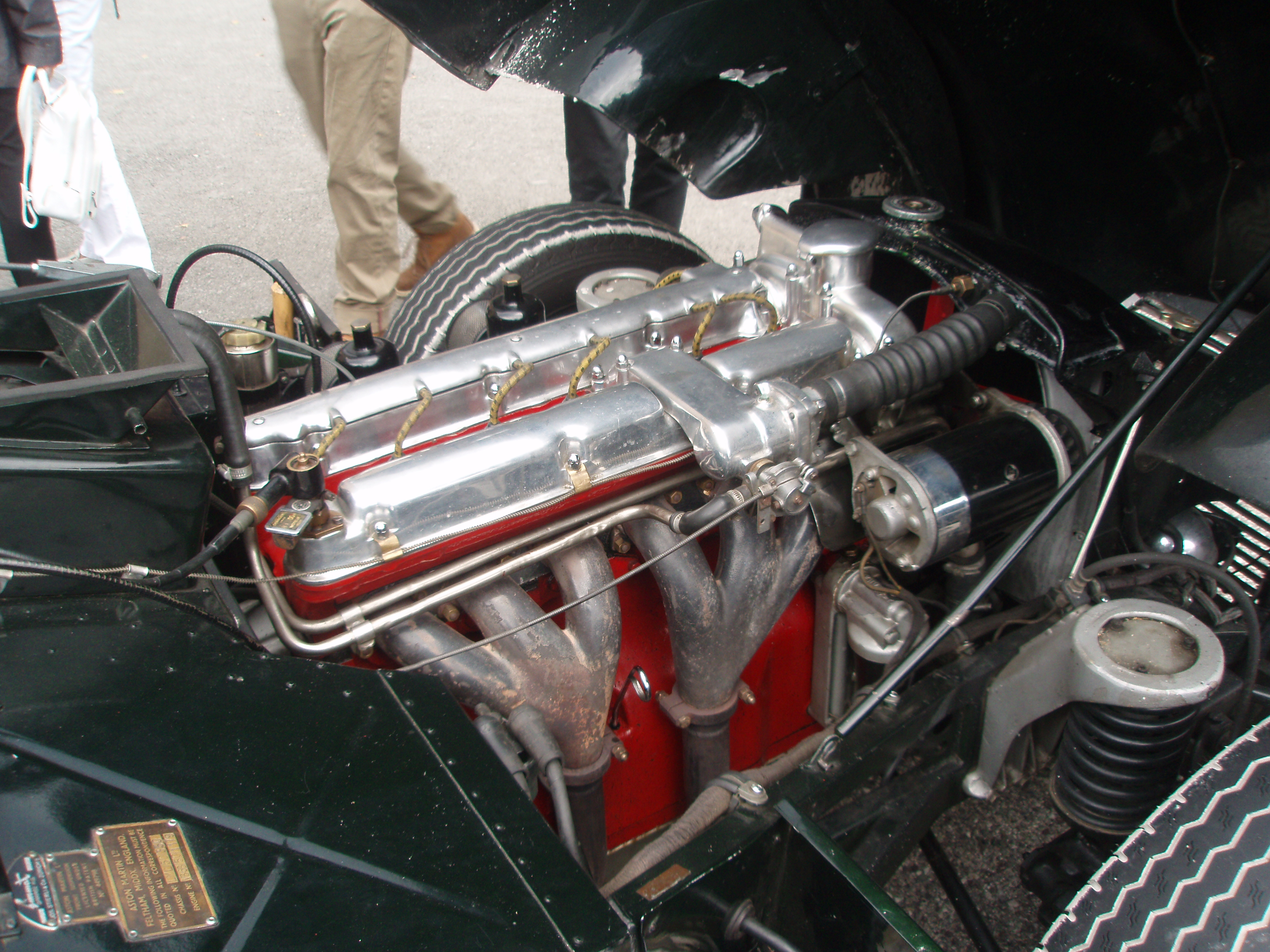 Straight-6 engine of an Aston Martin DB2